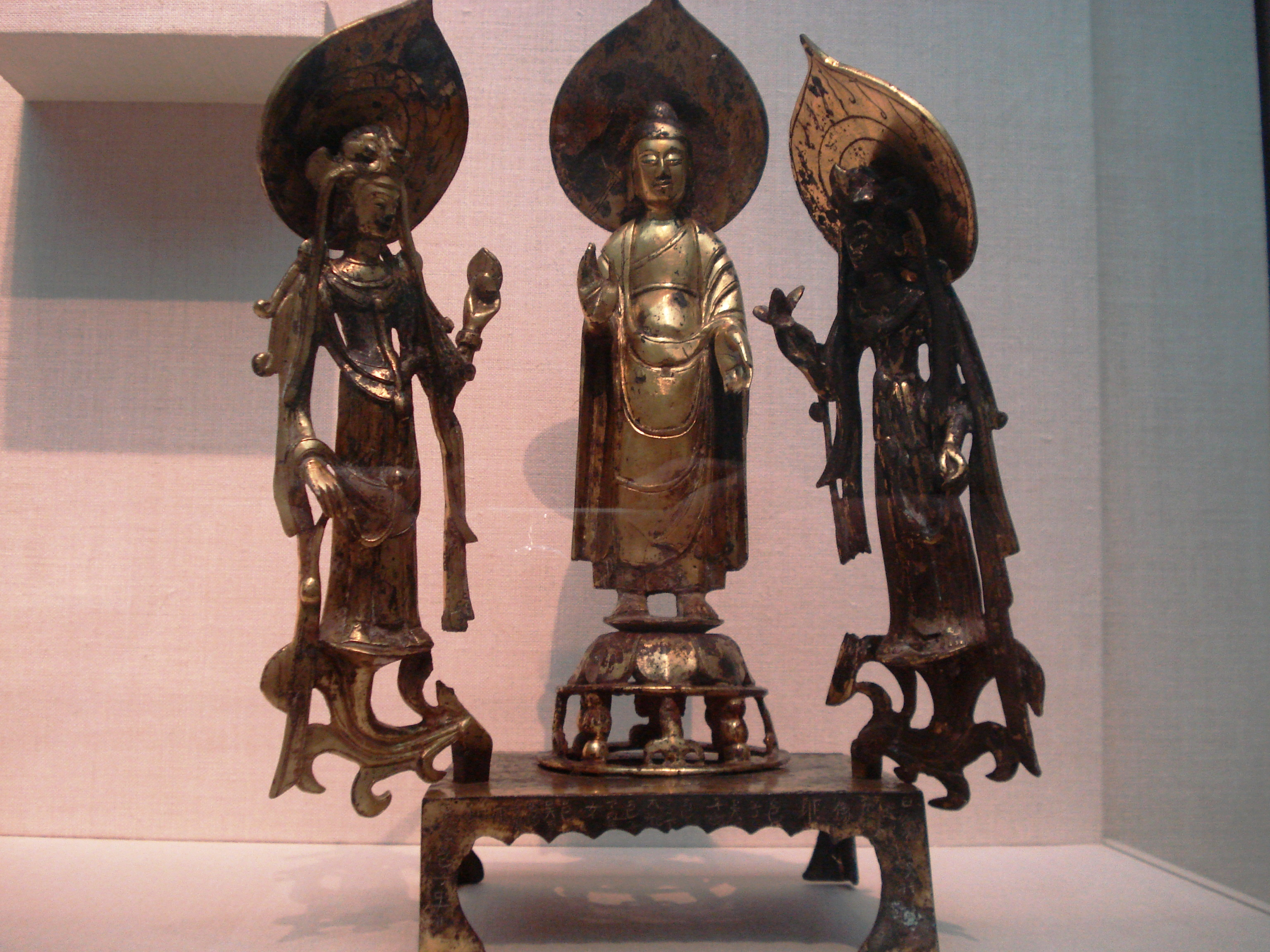 A Chinese gilt bronze stand with a historical Buddha flanked by two bodhisattvas, from Northern China, made during the Sui Dynasty, dated precisely 597 AD.